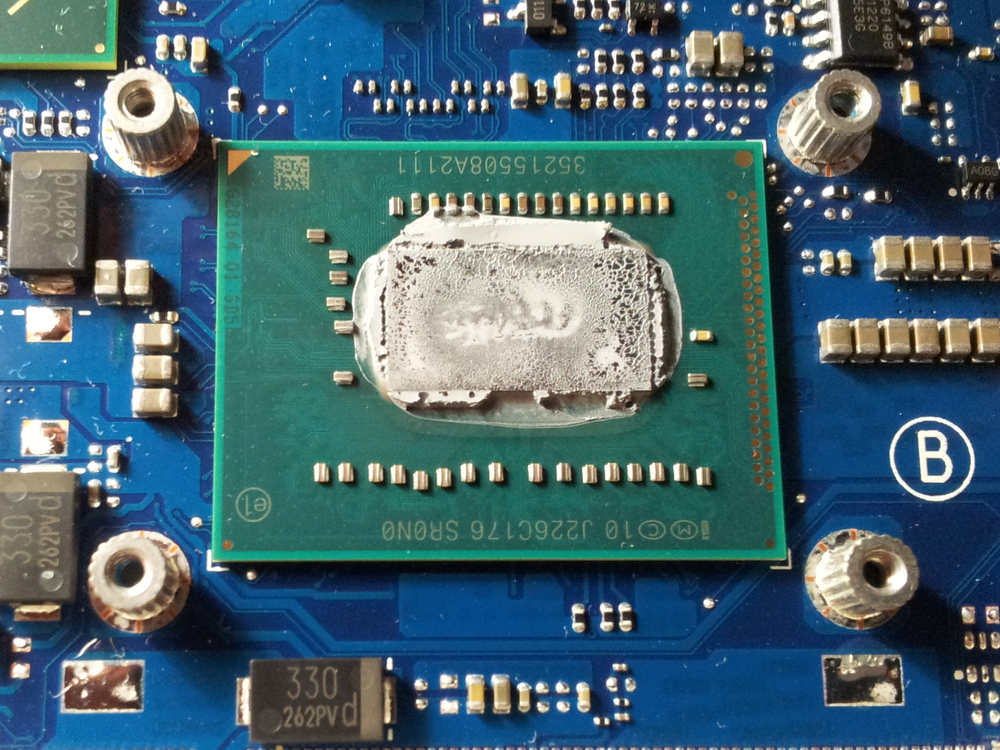 Intel Core i5-3210M (BGA-1023 package) on a Sony Vaio SVS1511L3ES mainboard Date of production : Week 26/2012